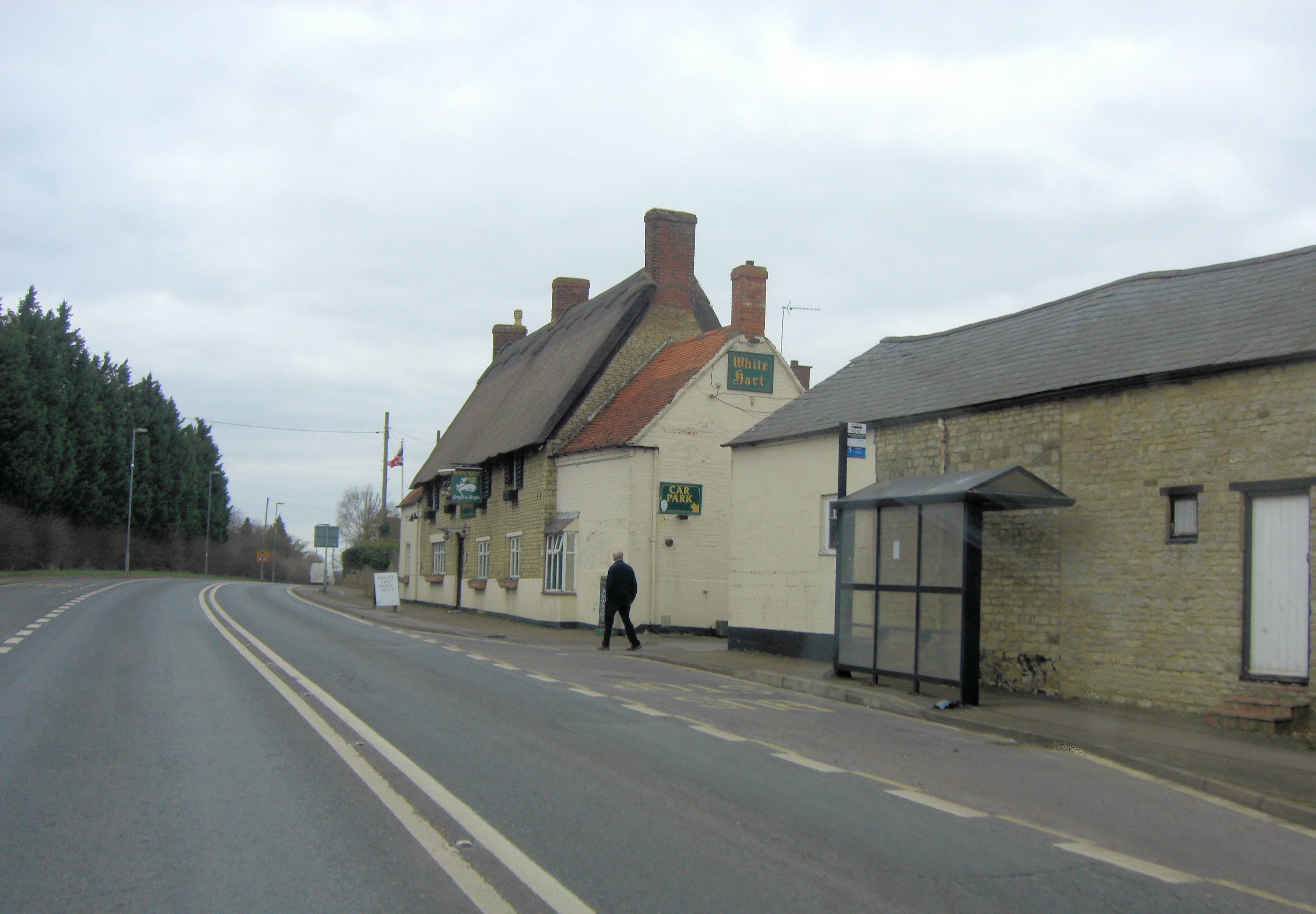 A508 passes The White Hart Public House